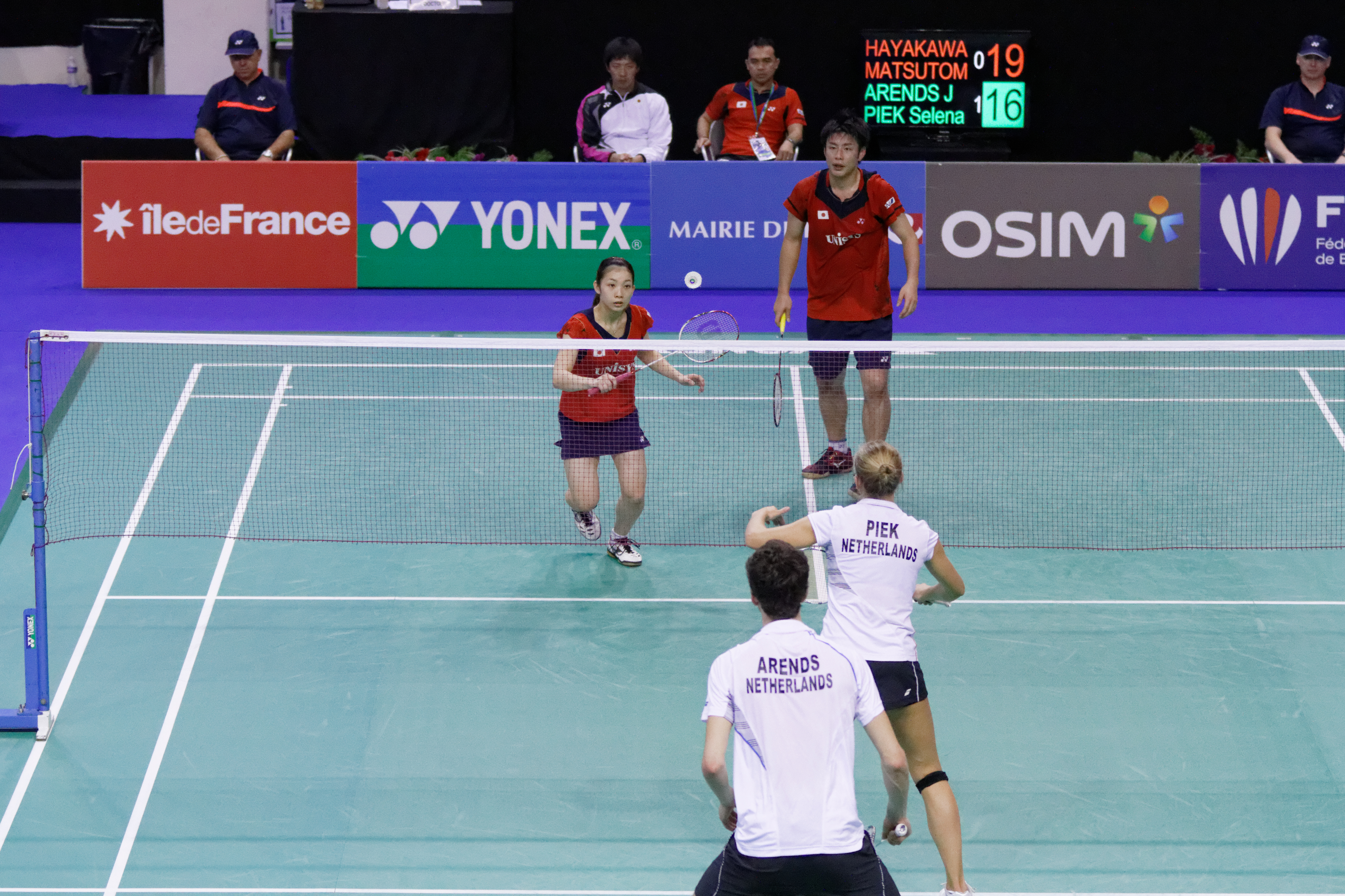 2013 French open. Mixed's doubles eightfinal. Kenichi Hayakawa and Misaki Matsutomo vs Selena Piek and Jacco Arends.